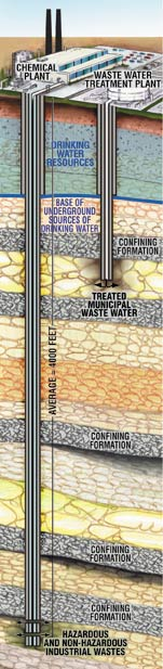 Illustration of a deep injection well for disposal of hazardous, industrial and municipal wastewater. Categorized as a "Class I Well" under the U.S. Safe Drinking Water Act.